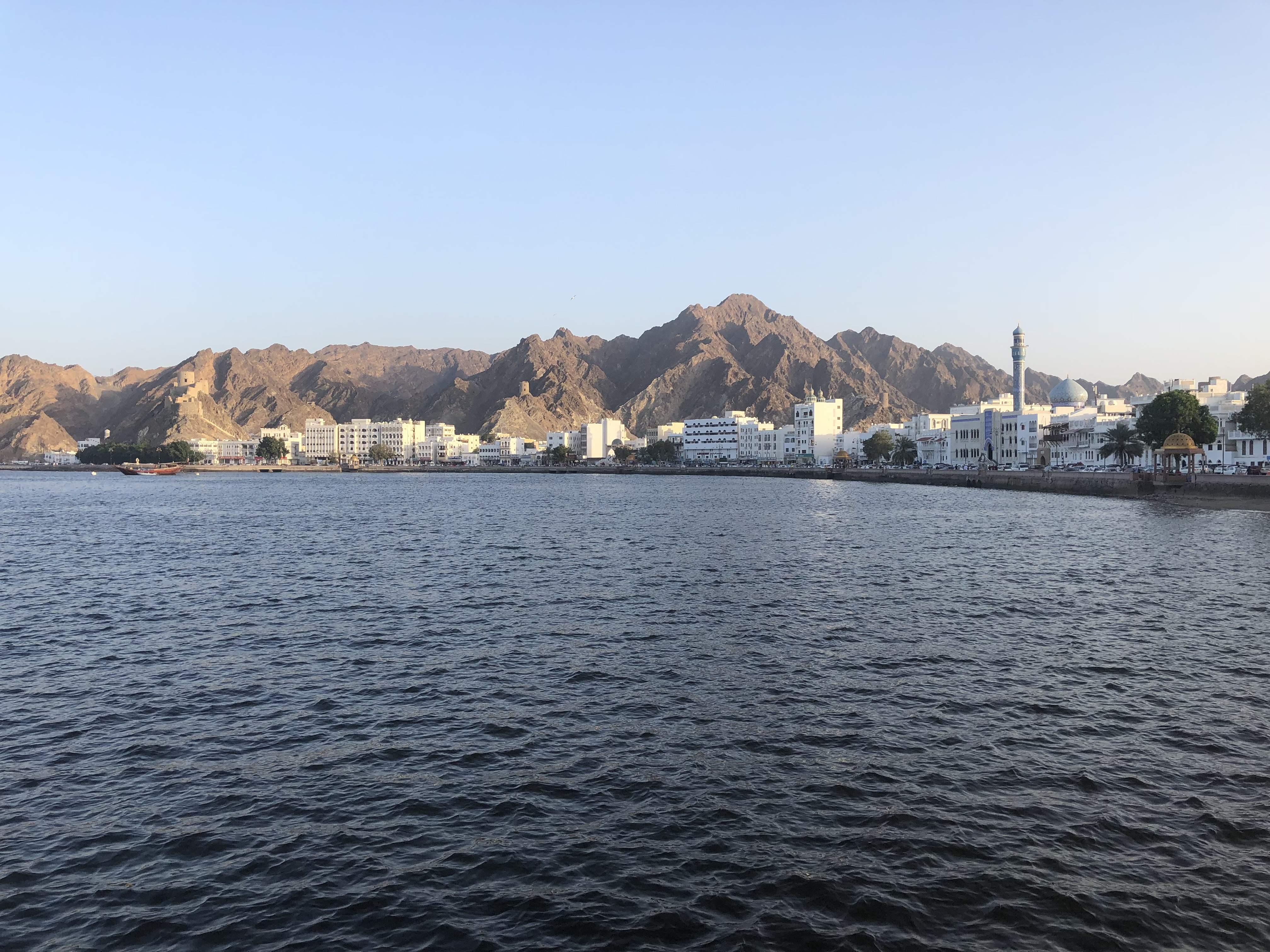 Corniche of Muttrah